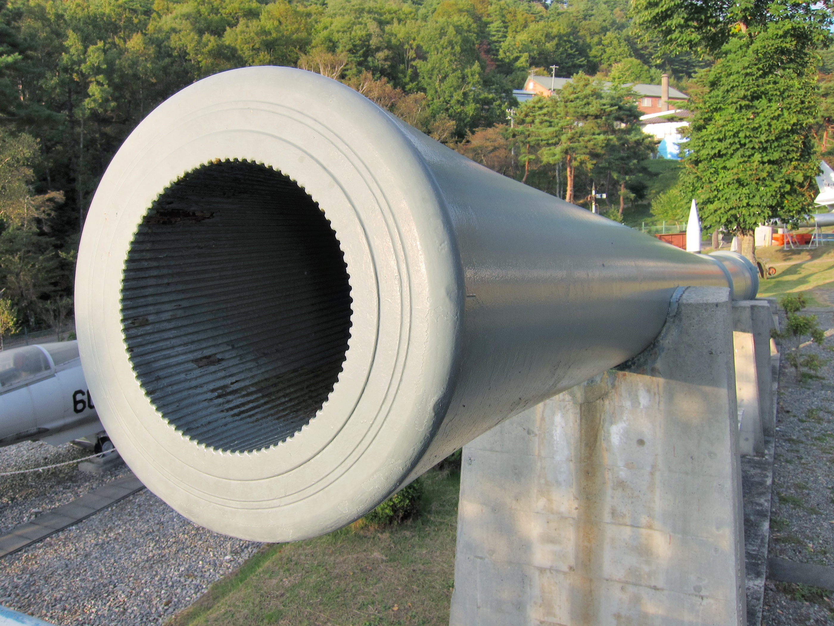 Photograph of Hijiri Museum, battleship Mutsu 41cm gun exterior. address 5889-1 Ohijiri, Omi Village, Higashichikuma District, Nagano Prefecture, Japan photo date October 16, 2010